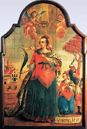 Anonymous, Virgin Martyr Saint Quiteria, 18th century. Tempera on wood, 248 x 166 cm. Arquidiocese de Olinda e Recife, Convento de Santo Antônio